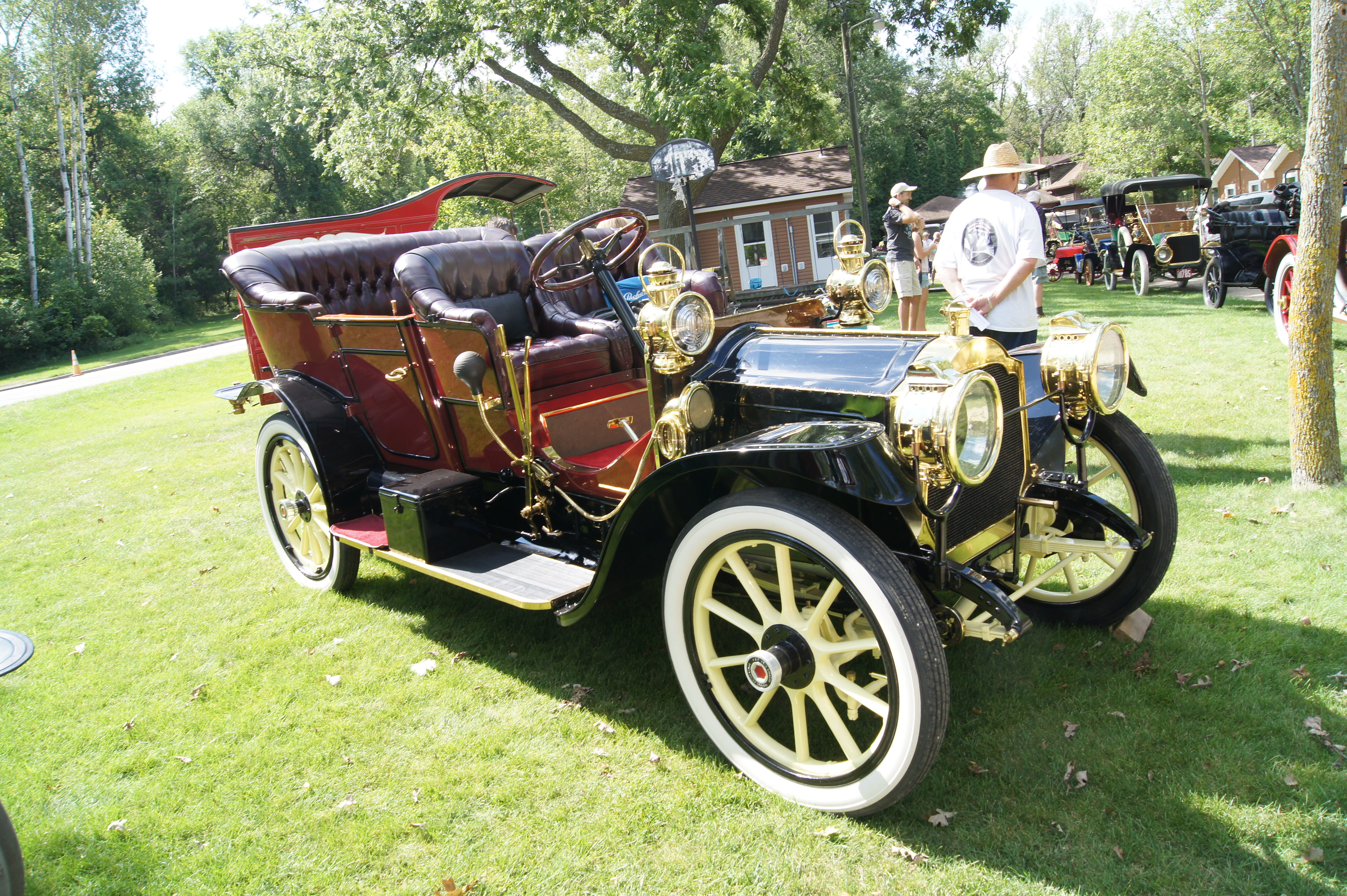 1910 Packard Eighteen Touring series NB at the 26th Annual New London to New Brighton Antique Car Run August 8, Pre-Tour